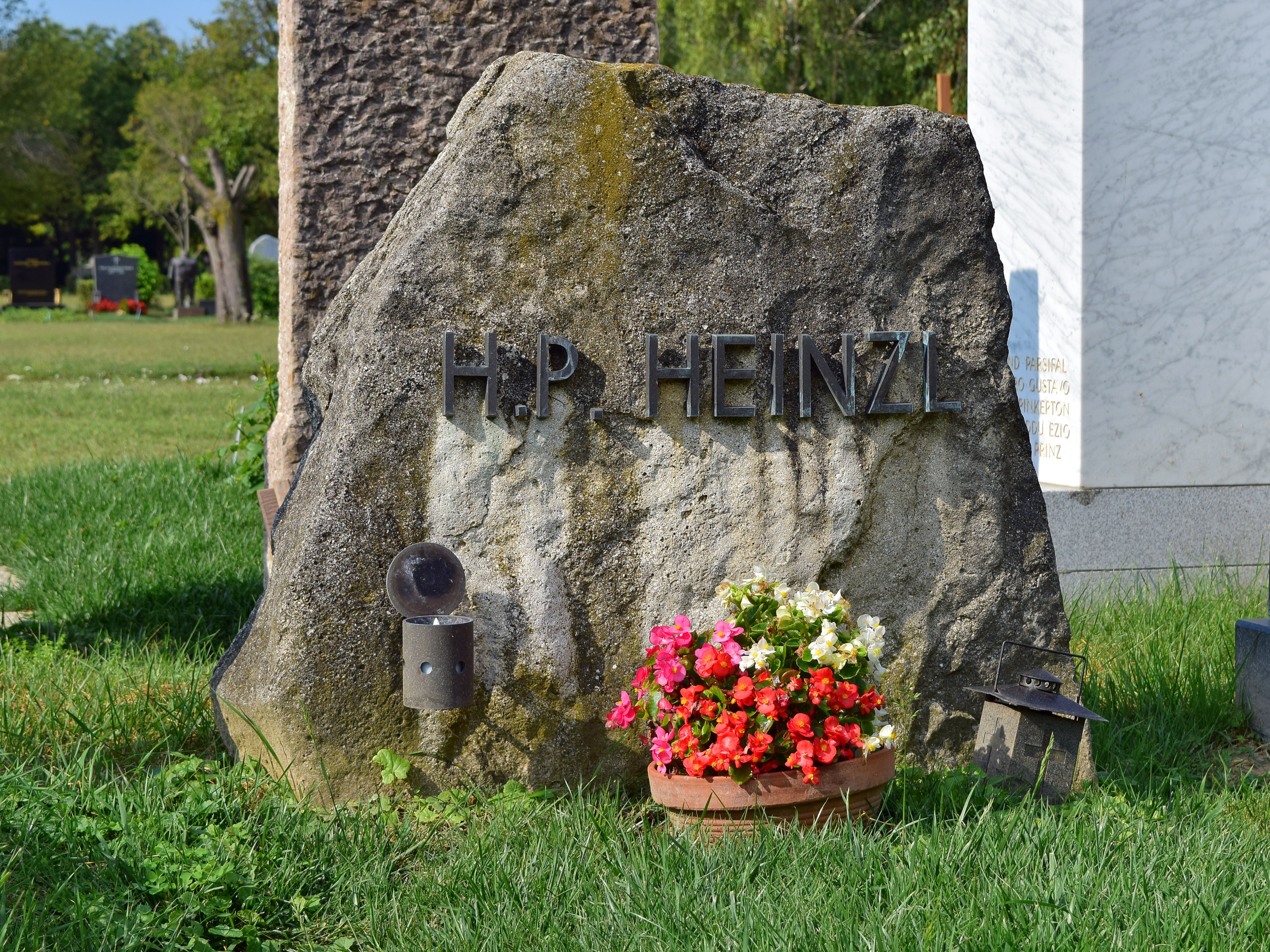 Grave of honor of the Austrian actor Hans Peter Heinzl at the Wiener Zentralfriedhof